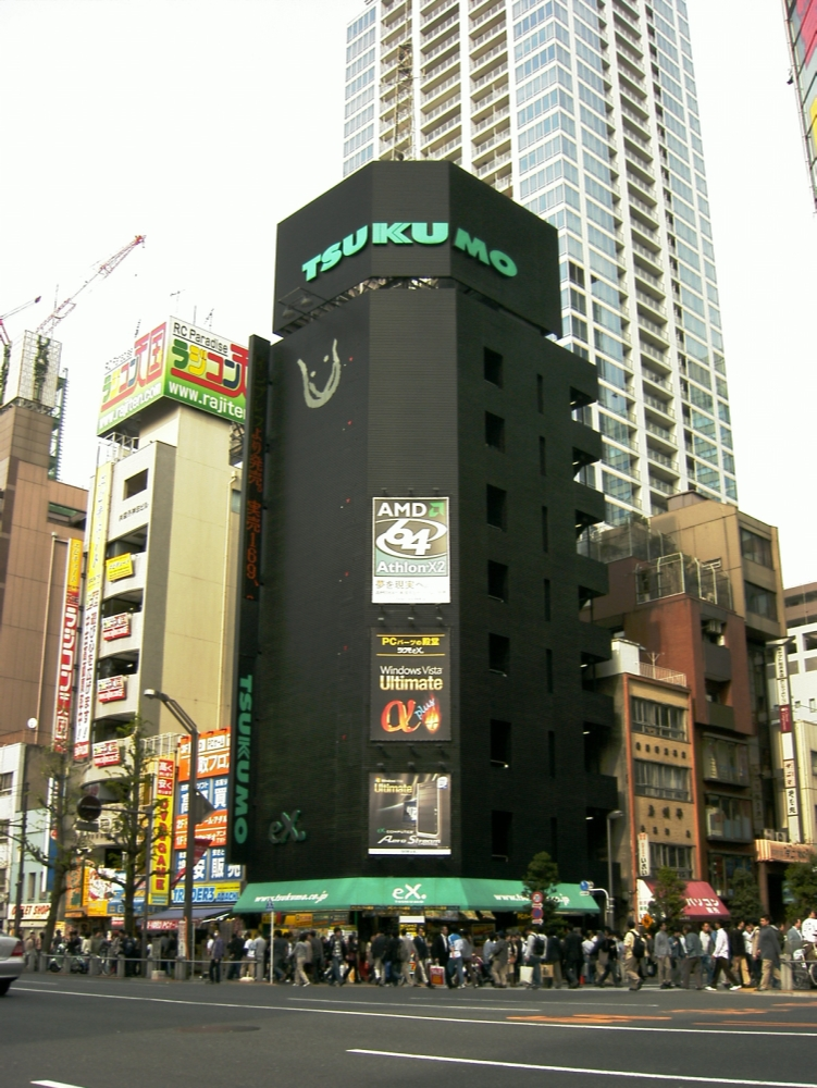 Tsukumo_Computer_Shop in Akihabara, Tokyo, Japan.